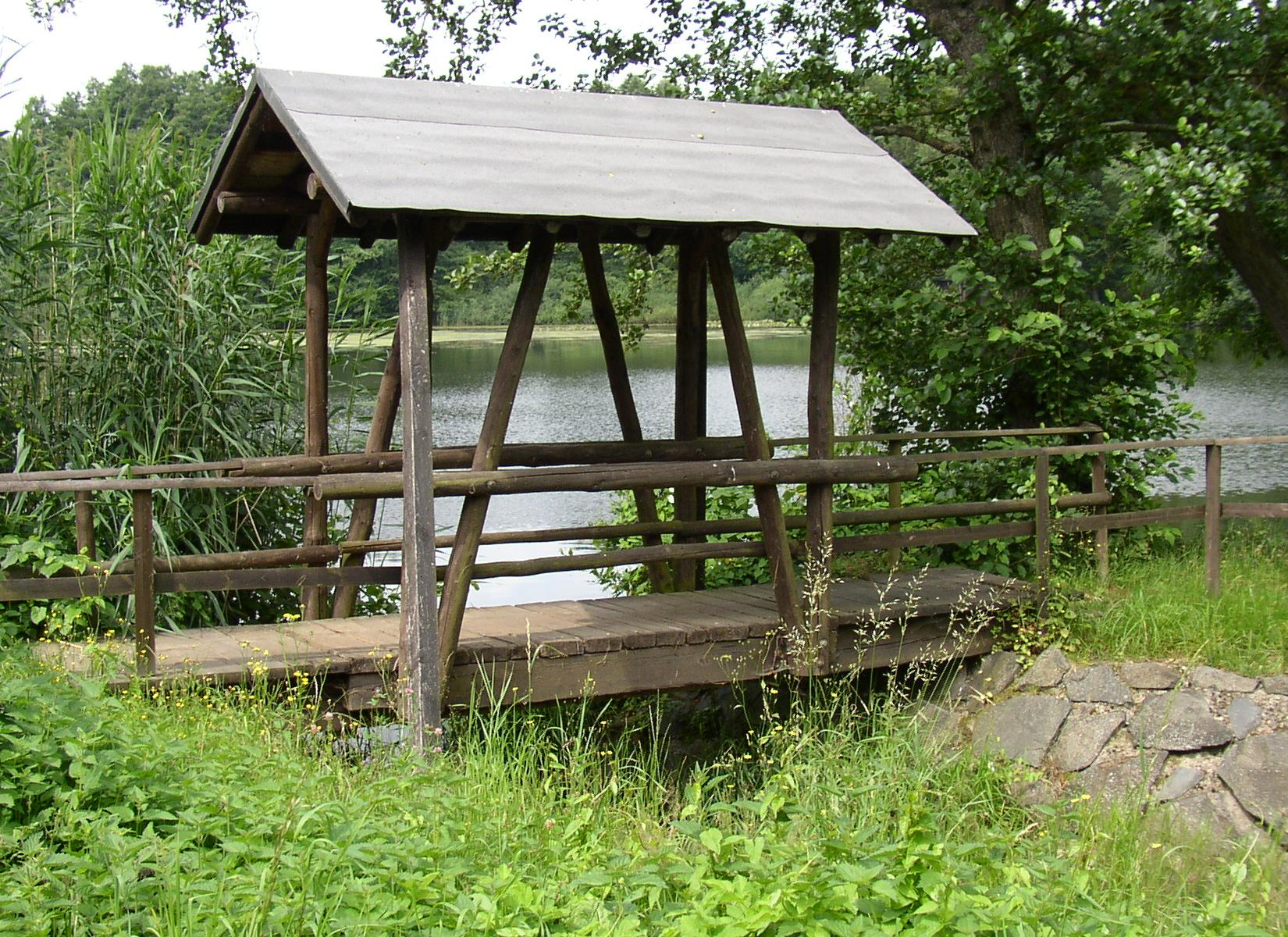 Lake in Nieder-Ohmen (Mücke) in Hesse, Germany